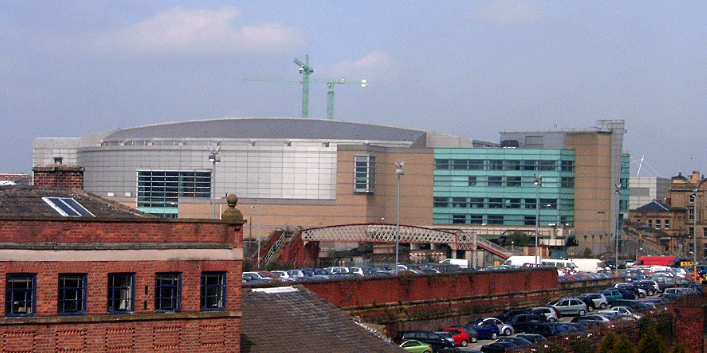 Manchester Evening News Arena